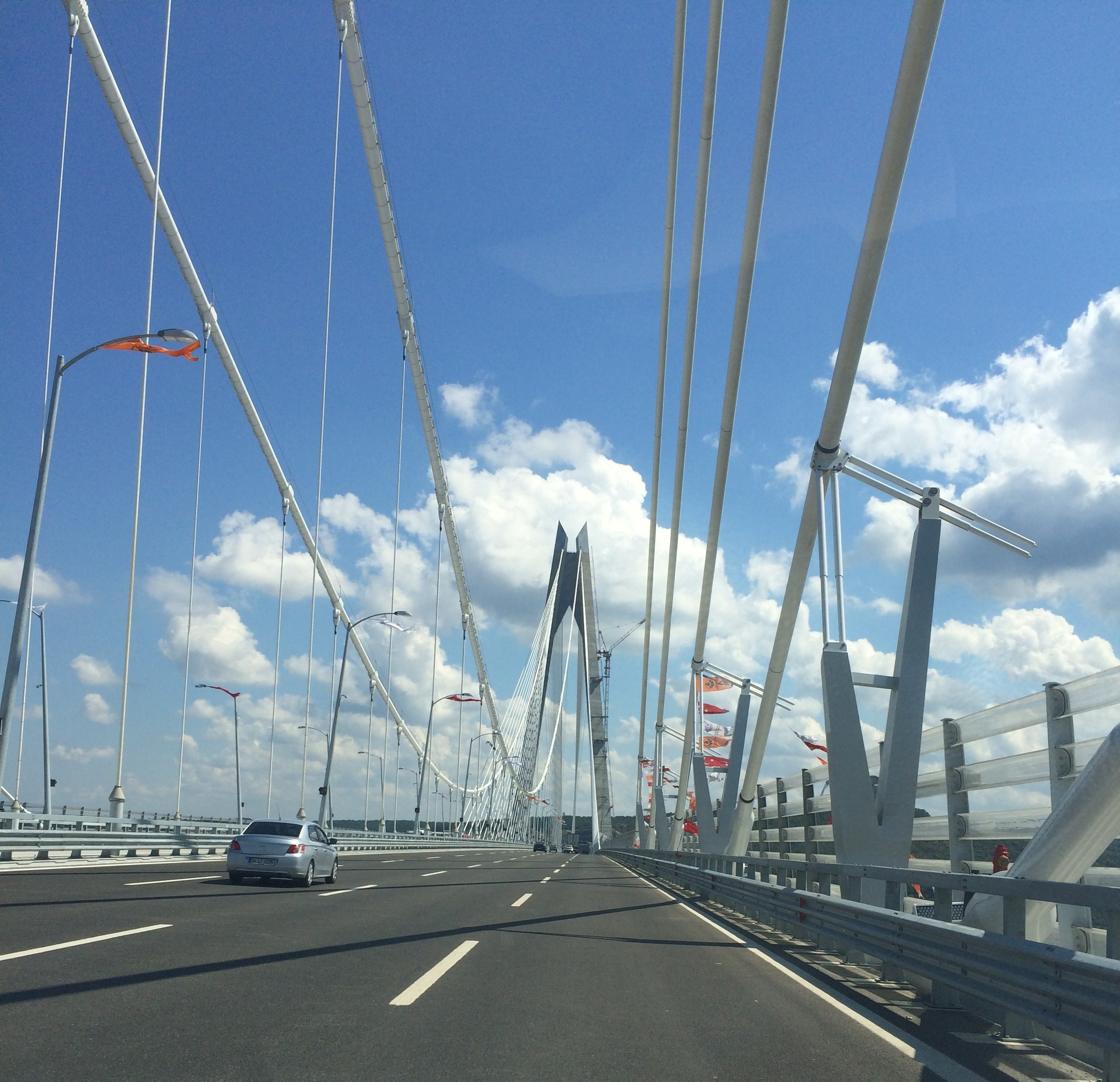 Yavuz Sultan Selim Bridge, Poyrazköy leg